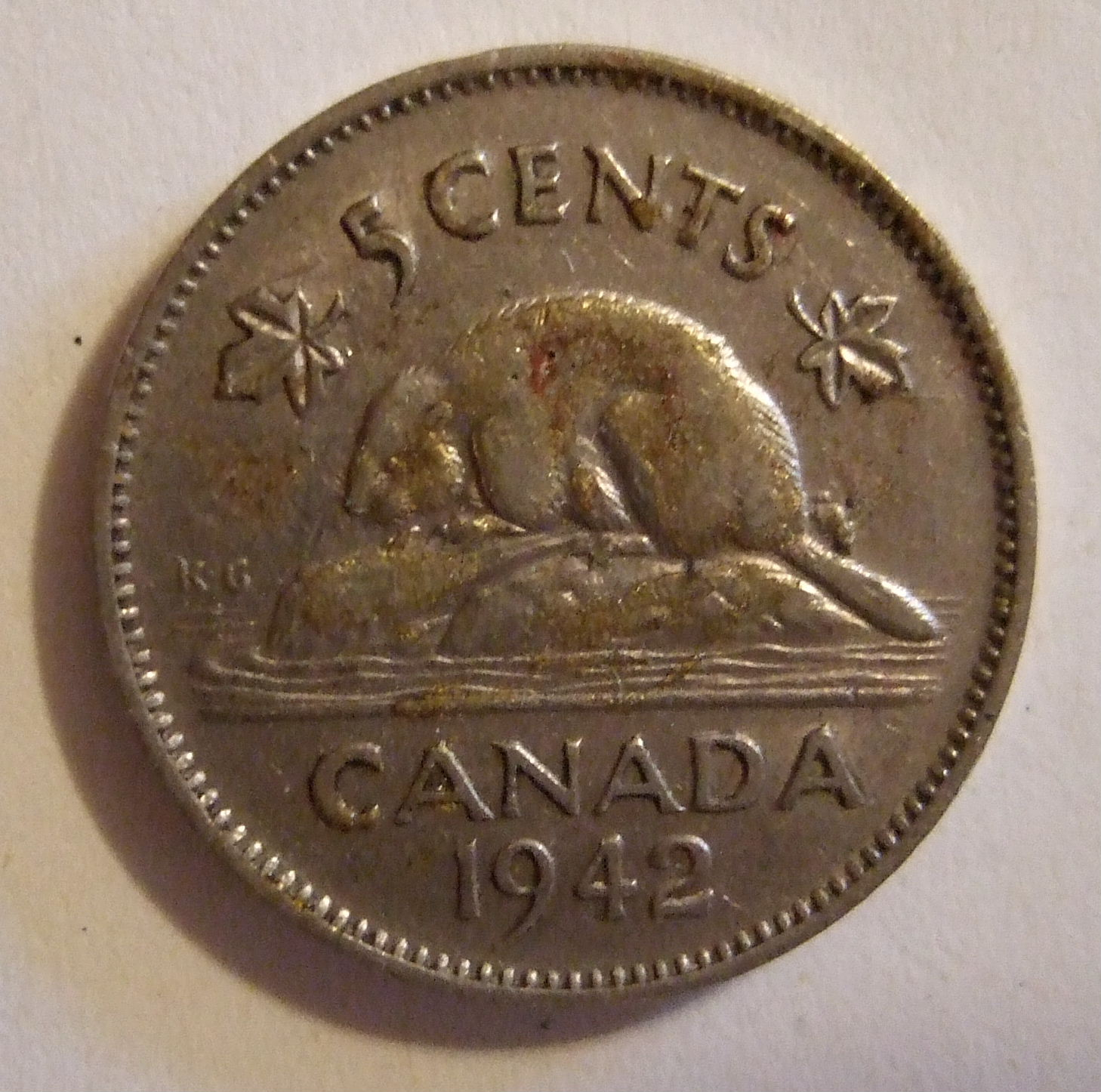 In 1942 some Canadian nickels were made of nickel and later in the year some were made of an alloy called tombac.